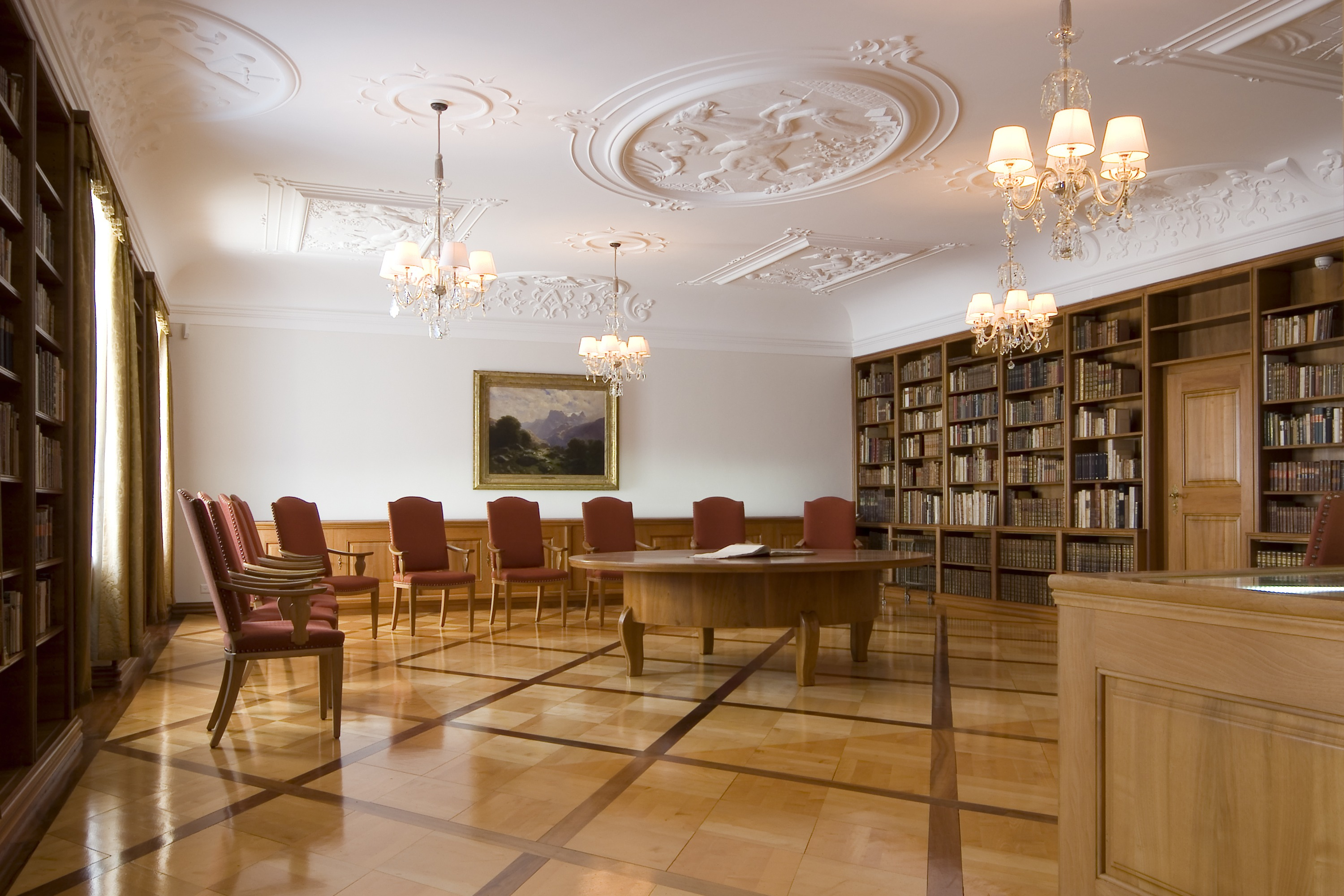 Iron Library in the Paradise Estate, Schlatt, Switzerland.